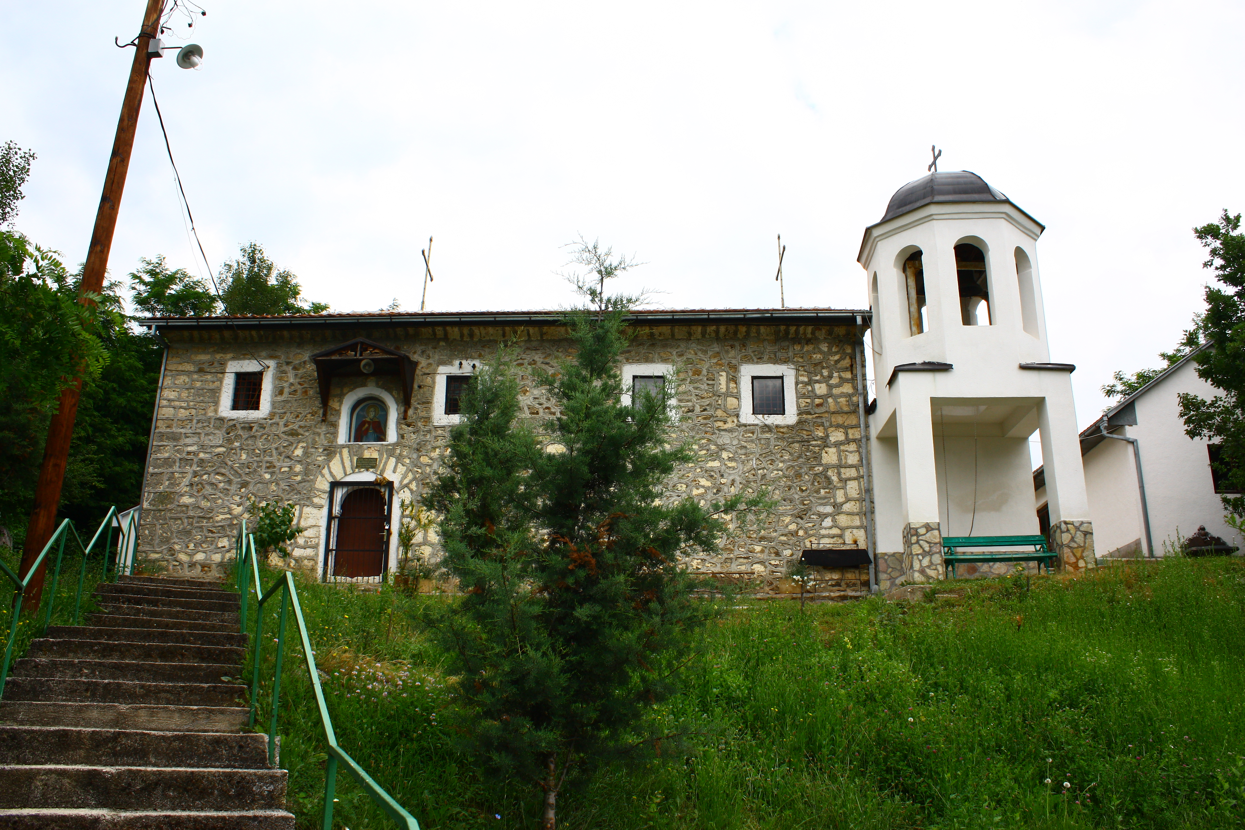 St. Margaret's of Antioch (Marena of Ognena Marija) Church in Zubovce, Macedonia